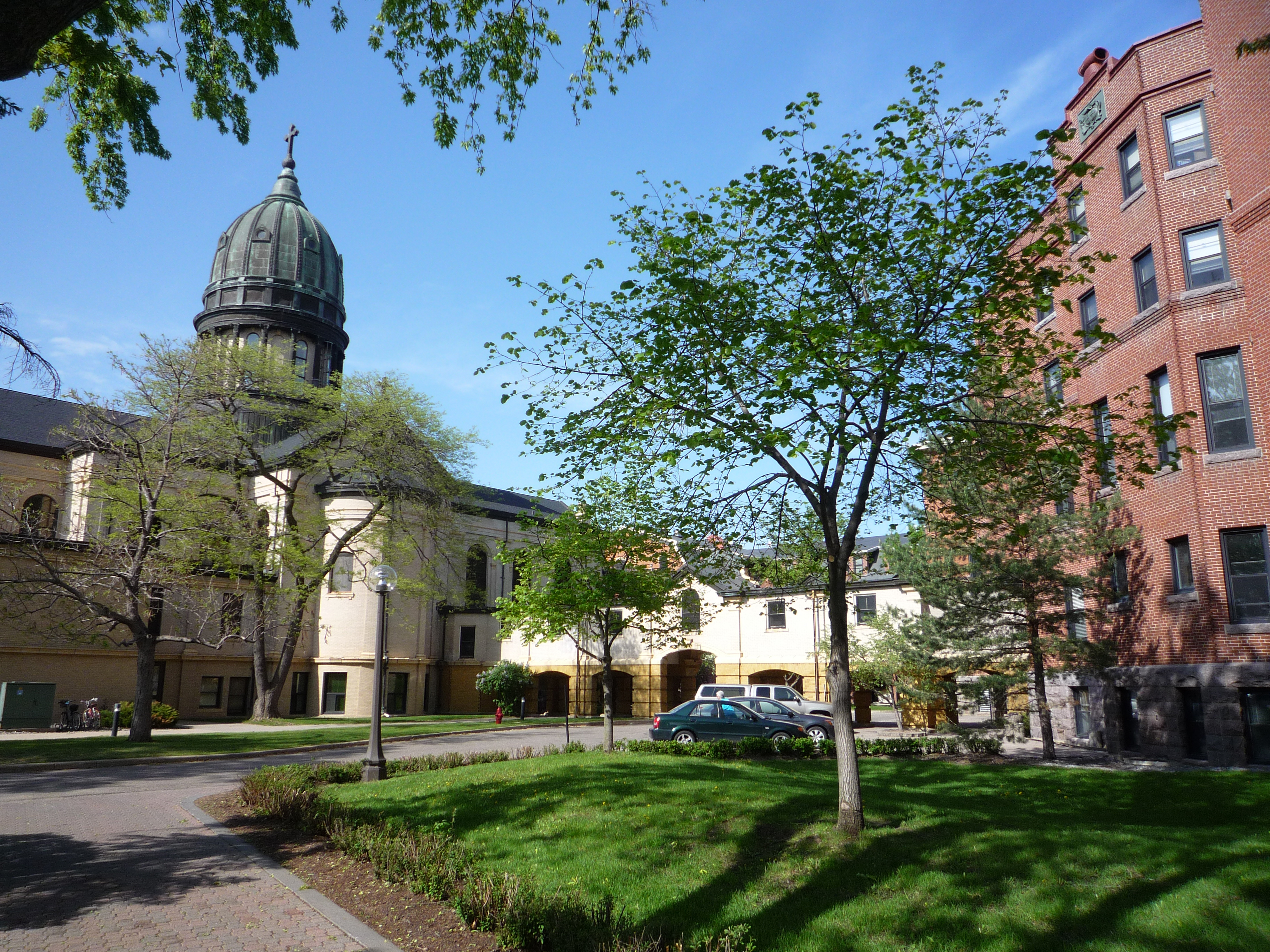 The campus of the College of Saint Benedict, St. Joseph, Minnesota, USA. The photo includes portions of the Main Building (right), Sacred Heart Chapel (left) and Main Convent (center).